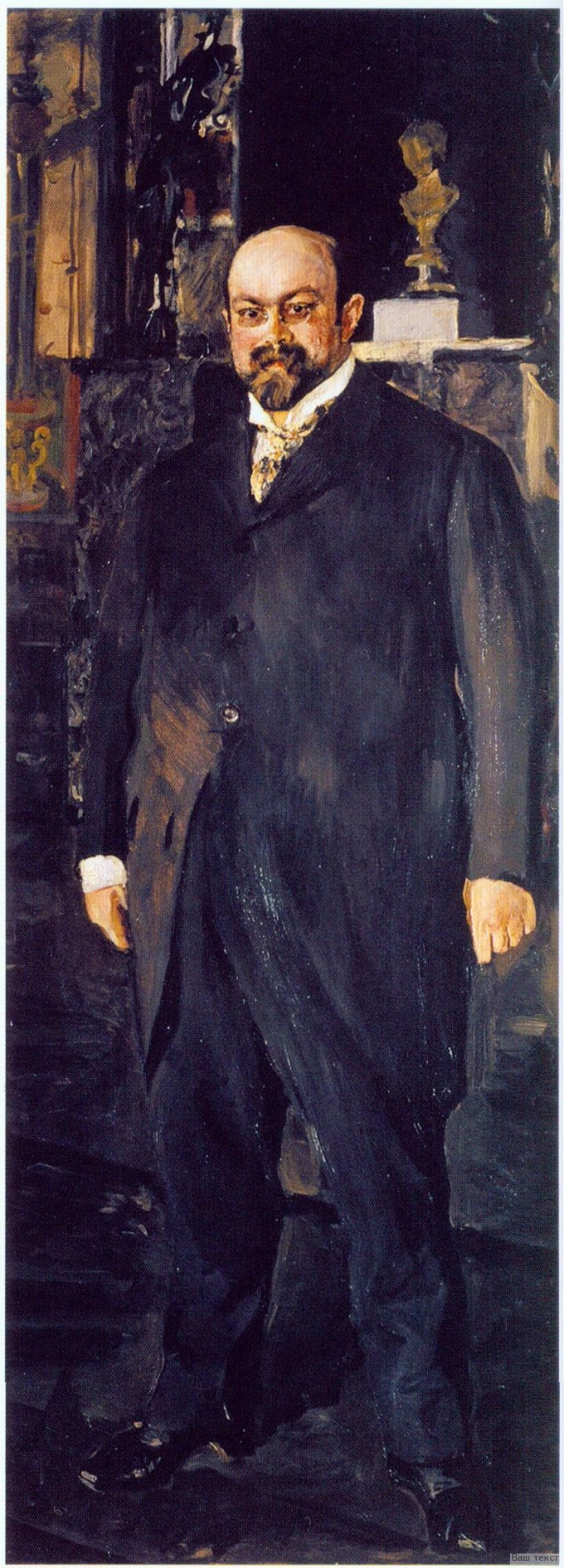 Portrait of Mikhail Abramovich Morozov